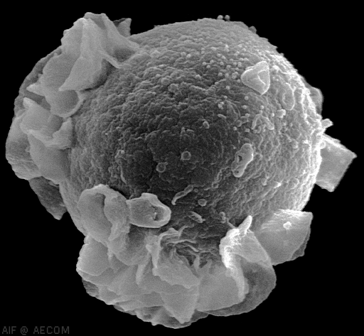 B-cell budding virus.